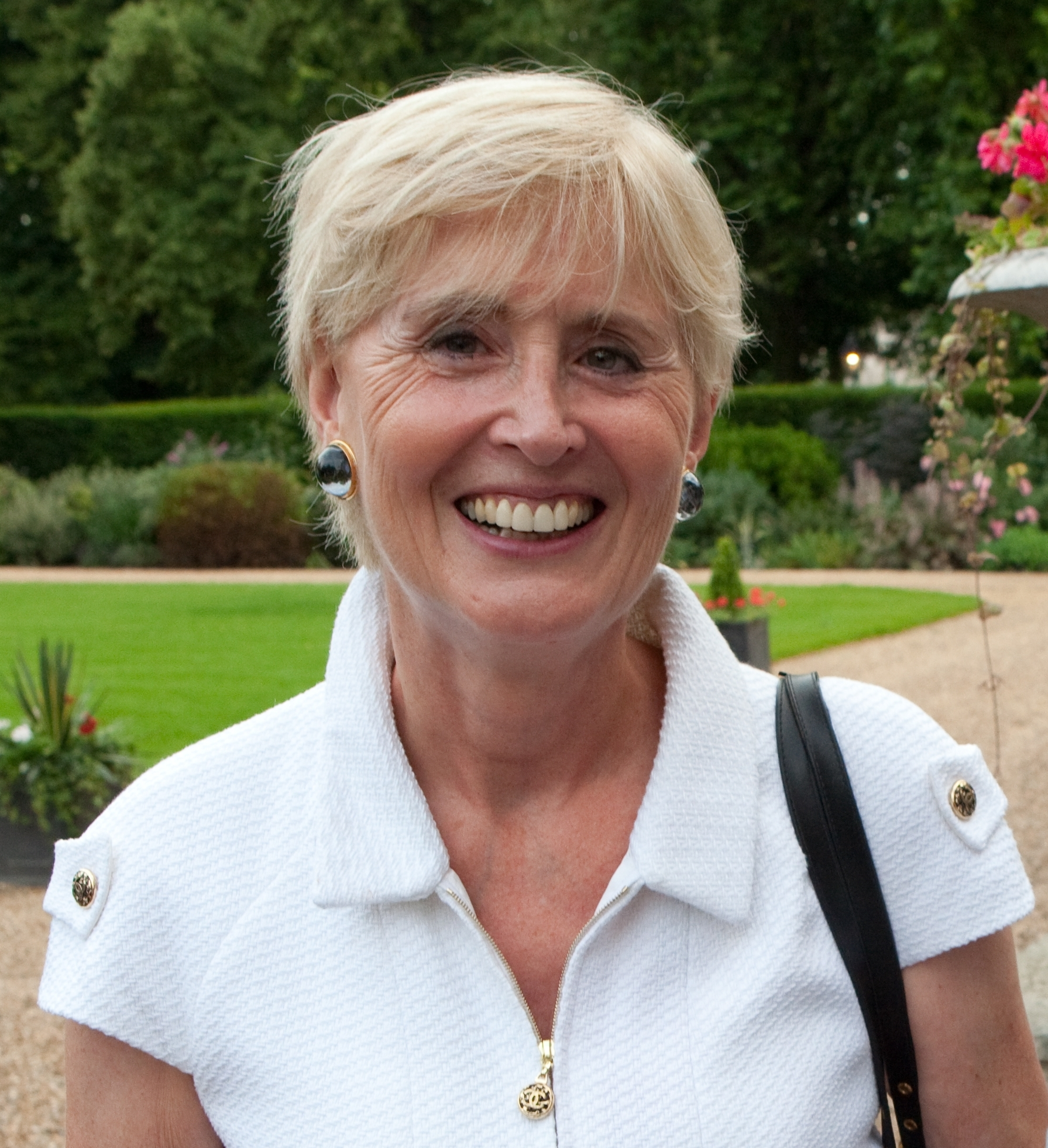 Denise Kingsmill, Baroness Kingsmill at the Financial Times annual summer party in the garden of Lancaster House, London